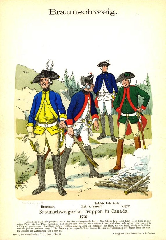 Brunswick ("Hesse") troops, American War of Independence